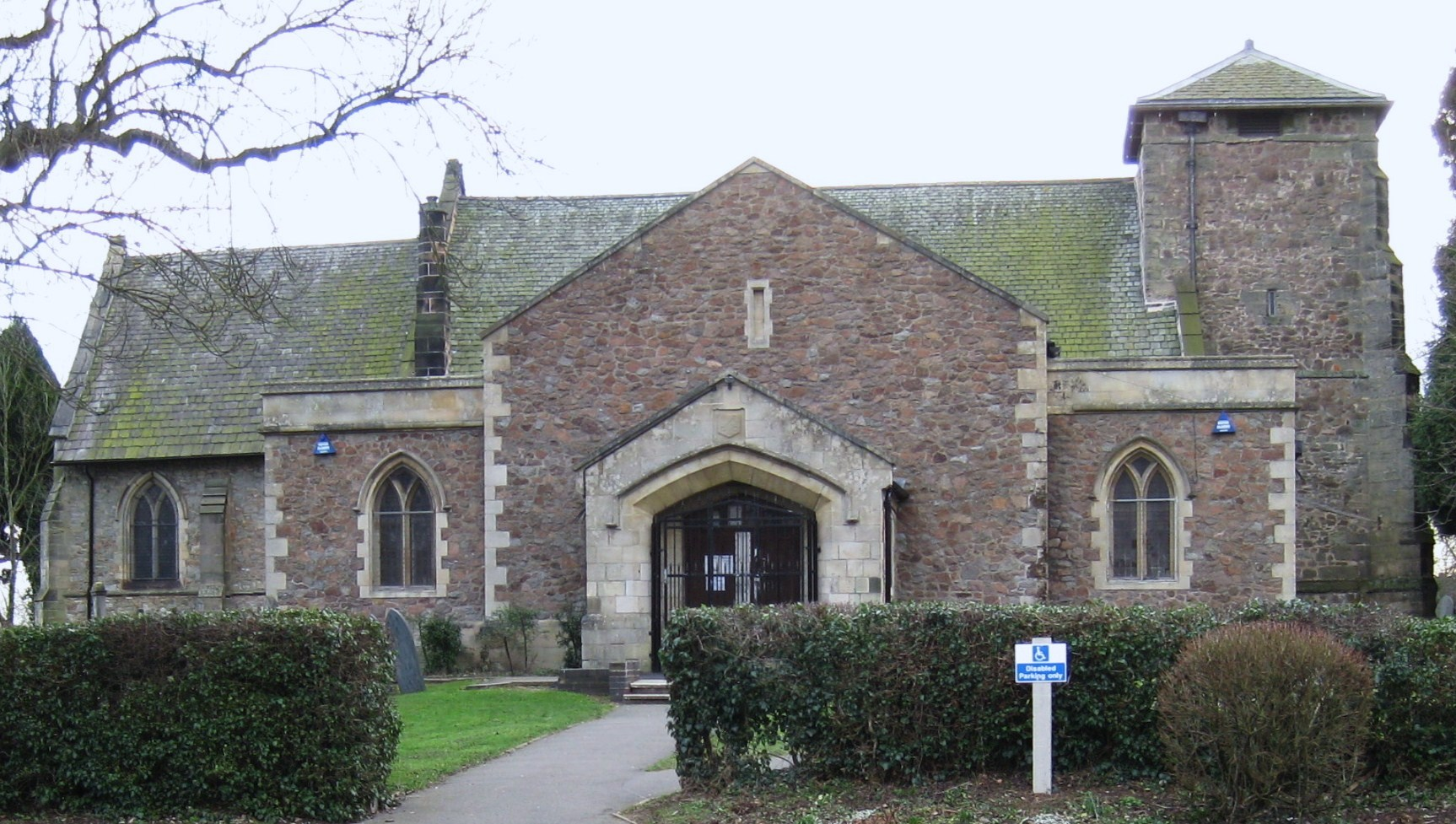 St Peter's parish church, Braunstone, Leicester, seen from the north